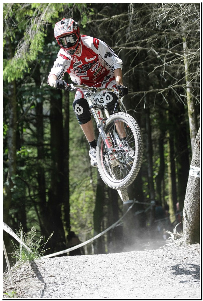 A mountain biker at on of Antur Stiniog tracks at Blaenau Ffestiniog, North Wales.